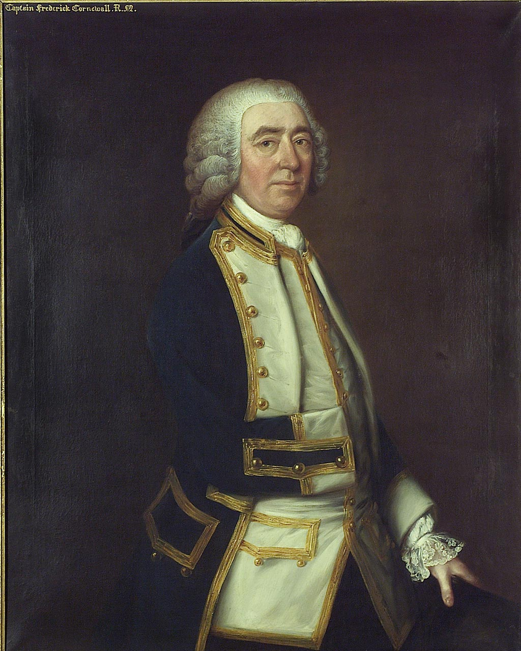 Portrait of Captain Frederick Cornewall (1706-1788). He lost his right arm in the Battle of Toulon in 1744.